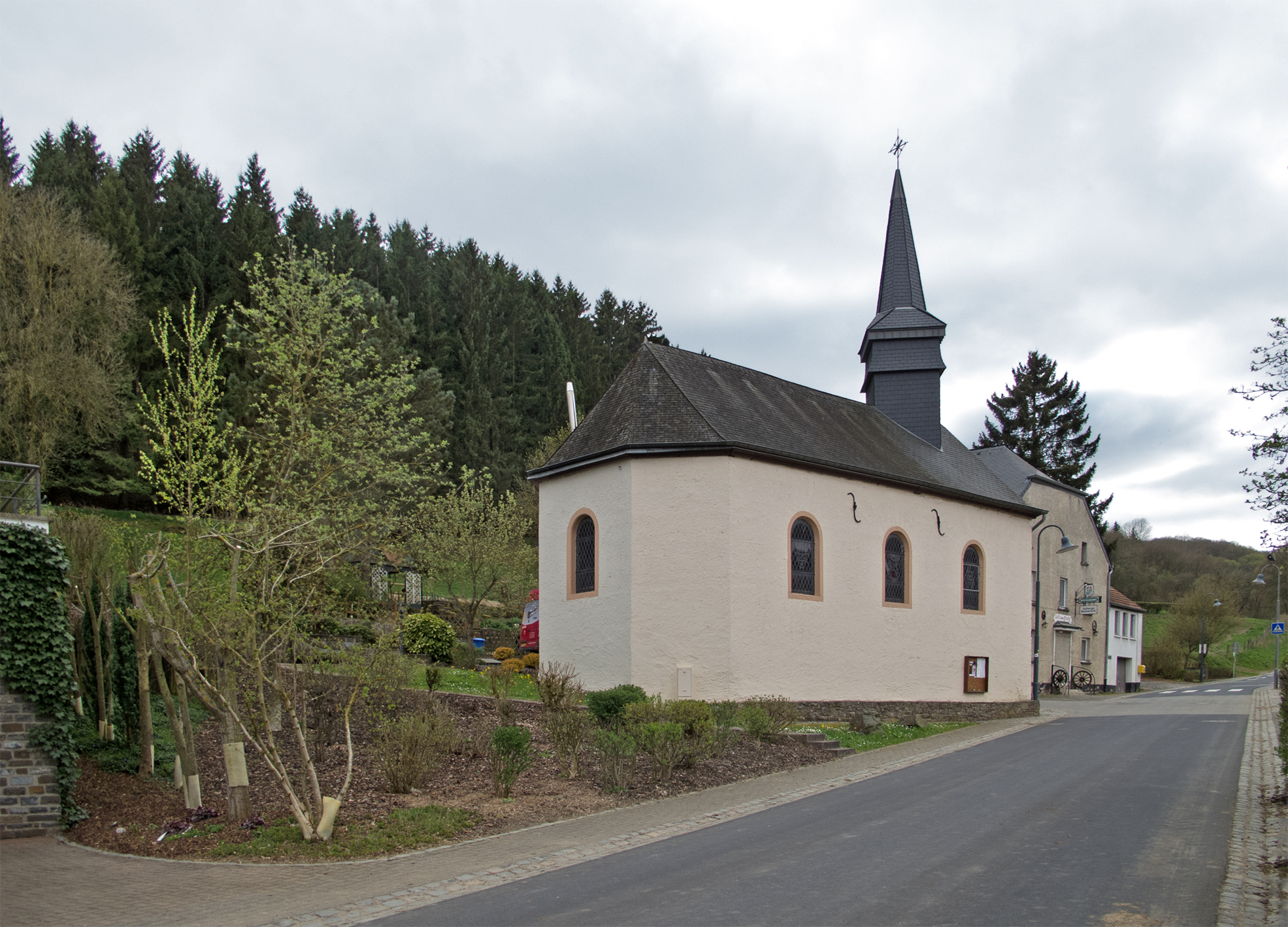 Chapel of Bockholtz (Goesdorf)